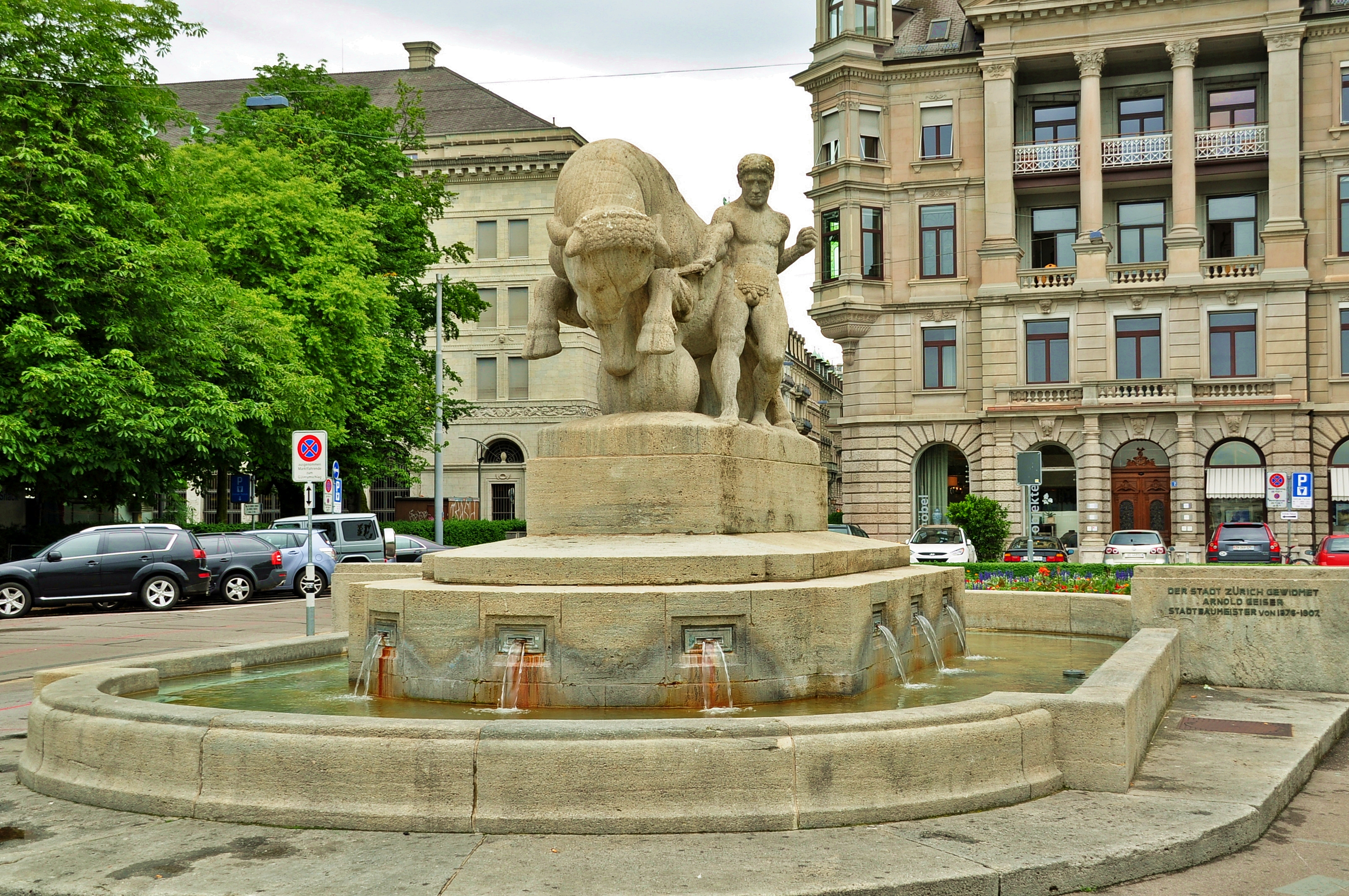 Geiserbrunnen sculpture, Zurich, Switzerland